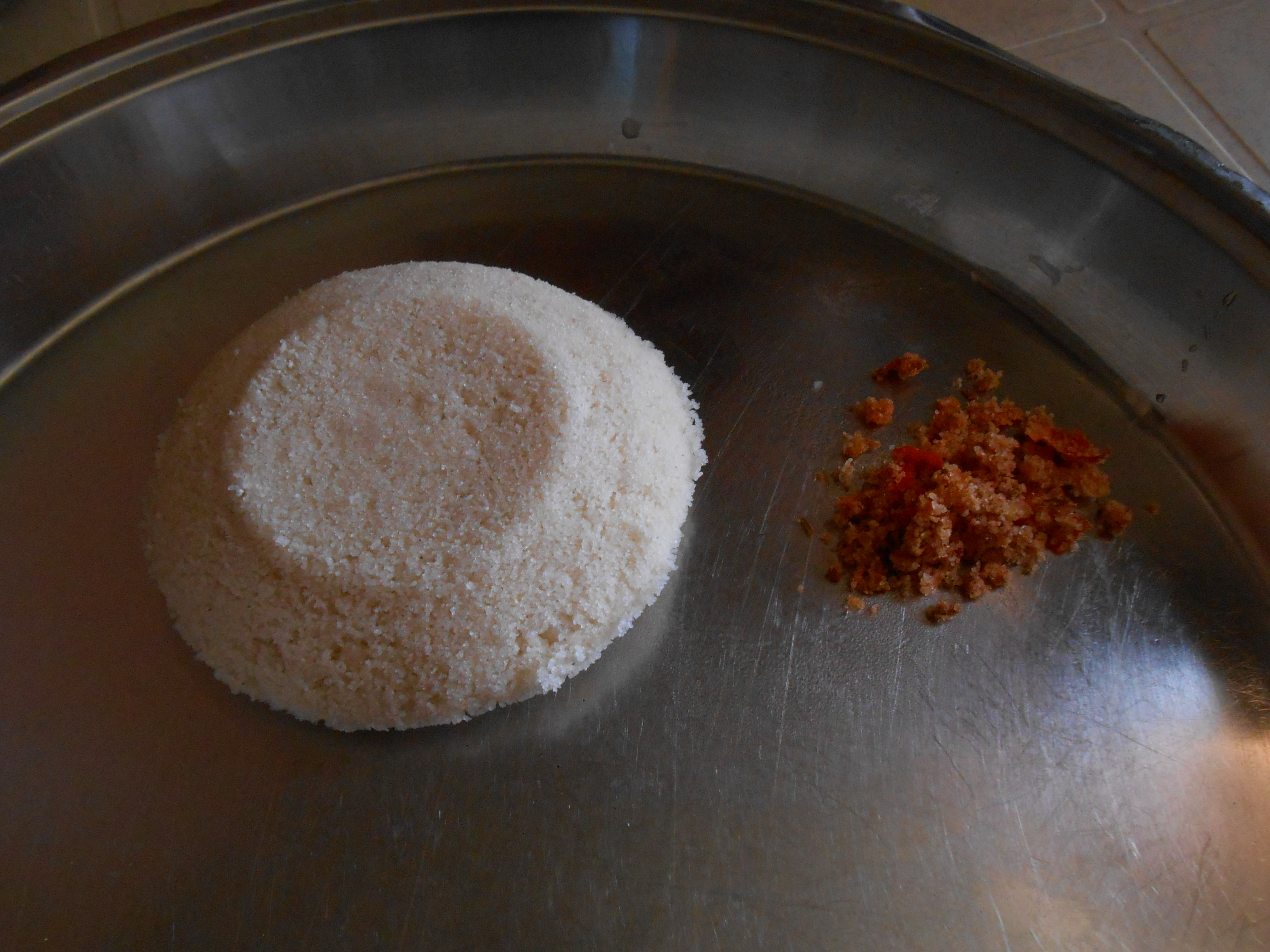 Ready to eatनेपाली: खानको लागि तयार भएको भक्का